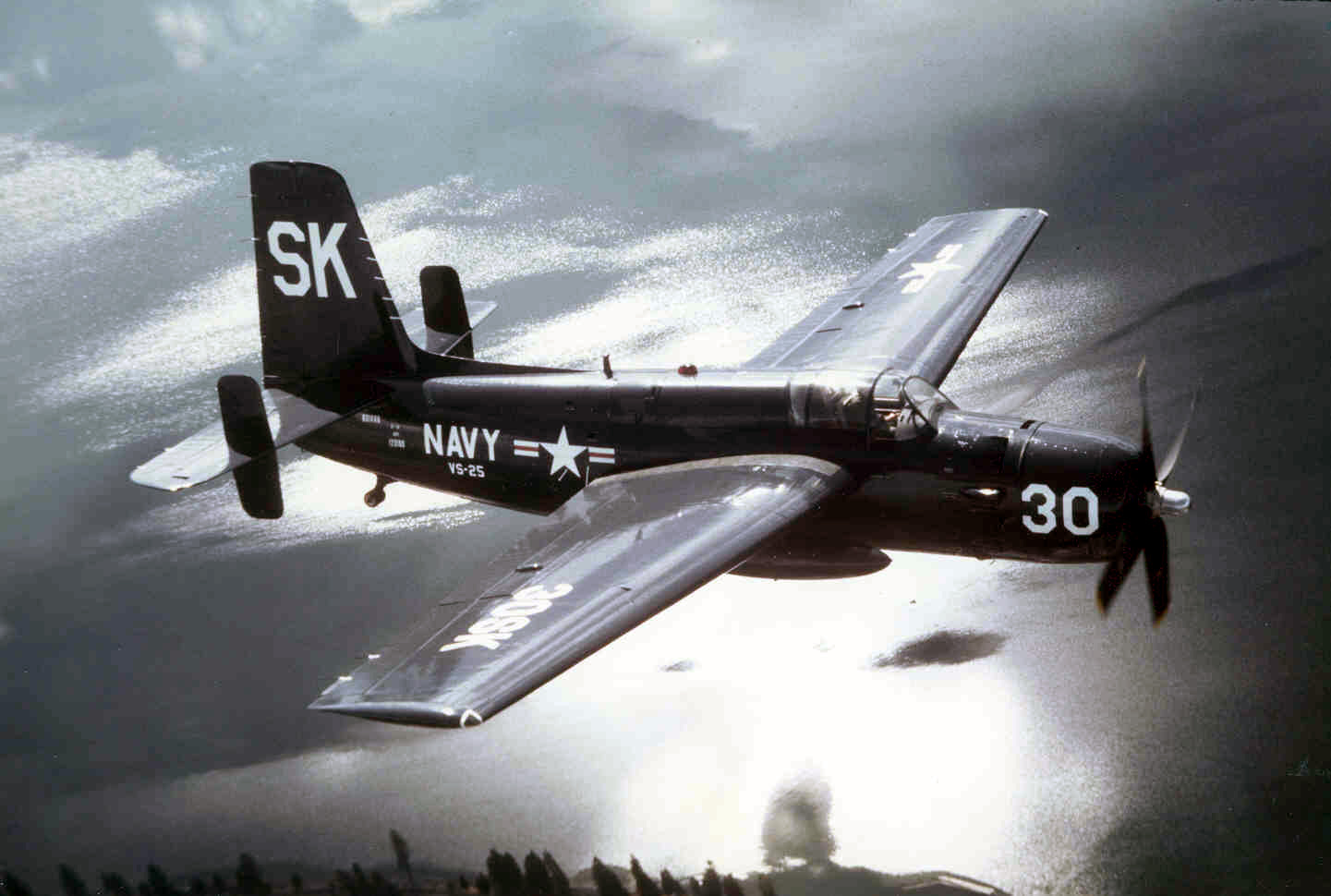 A Grumman AF-2S Guardian of the Museum of Naval Aviation painted in the colours of antisubmarine aquadron VS-25 pictured in flight. Officil NMNA description: "Accepted by the U.S. Navy 6 July 1950, the museum's AF-2S entered squadron service with Experimental and Development Squadron (VX) 1 at Naval Air Station (NAS) Key West, Florida, where it served as a flight test aircraft until February 1952. Between 1952 and 1956, it flew with various Naval Air Reserve Units at NAS Jacksonville, Florida, NAS Willow Grove, Pennsylvania, and NAS South Weymouth, Massachusetts. Stricken from the Navy inventory at the naval storage facility at Litchfield Park, Arizona, on 17 December 1956, the aircraft was eventually sold in 1958 to Clayton Curtis of Frontier Airways. At the time of sale, it had accumulated 1469 hours of flight time. Subsequently acquired by Aero Union Corporation of Reading, California, in 1962, the aircraft served as an aerial tanker fighting forest fires until 1978, at which time it began flying on the exhibition circuit. Fully restored, it was acquired by the museum in 1980. As the seventh AF-2S version of the Guardian built by Grumman, the aircraft was one of the earliest in service and, at the time of its acquisition, it was the only flying example of its kind. Painted in the markings of Antisubmarine Squadron (VS) 25, one of the first squadrons to operate the AF, the aircraft resides in the west wing of the museum. The "30" painted on the cowling is not historically accurate but instead stems from the aircraft's days as a fire fighter. At that it had the radio call sign "Red 30.""